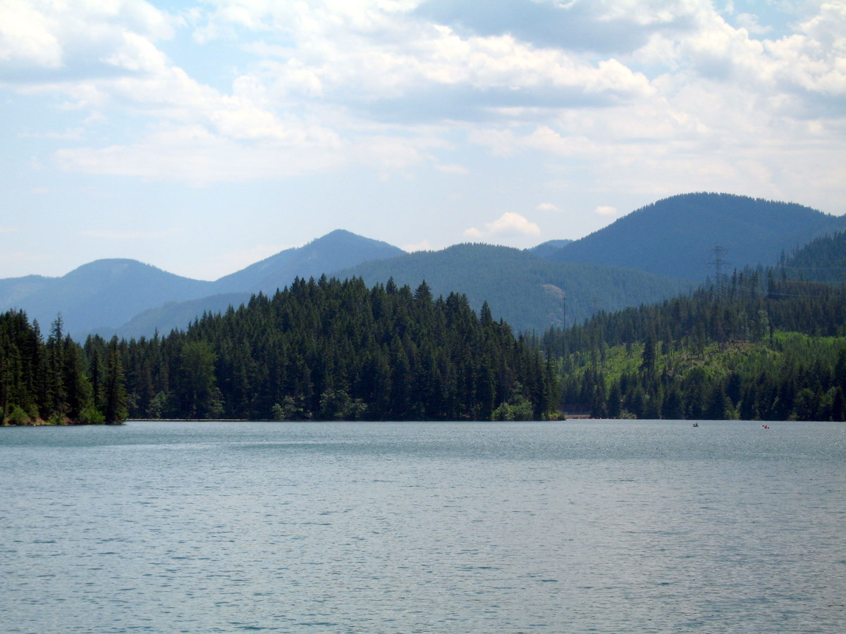 One of the tree huge lakes in the Columbia Valley, fed almost exclusively through glacial thaw and snow. Turns out that makes them VERY cold.